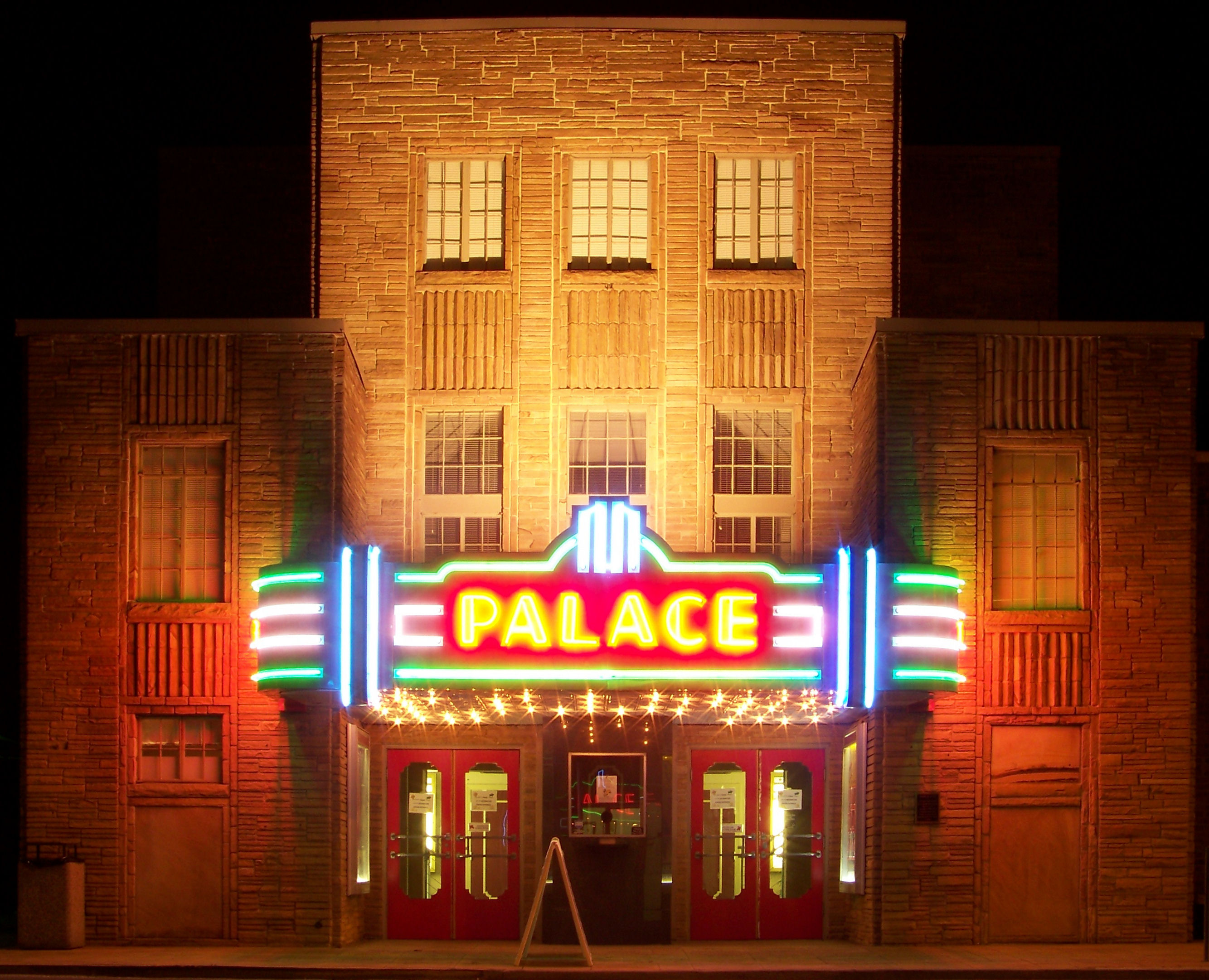 The old Palace theater in downtown Crossville Tennessee. Constructed in the late 1930s, the theater was the hub of entertainment in a growing southeastern town. It fell into disrepair in the early eighties as a newer theater came into town and drew the crowds away. It sat on its corner on Main Street literally rotting down for almost a decade. The building's roof gave way in many places, and the interior balcony quickly became a deathtrap. The Palace was resurrected in 2000, restored to its original glory, and reopened in early 2001. It is now a center of entertainment of several kinds including showings of classics by the local cinema club, live performances of various local and visiting musicians, comedians, magicians, and other entertainers.